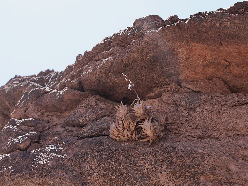 Tillandsia peiranoi in habitat in Peru, exact location unknown.